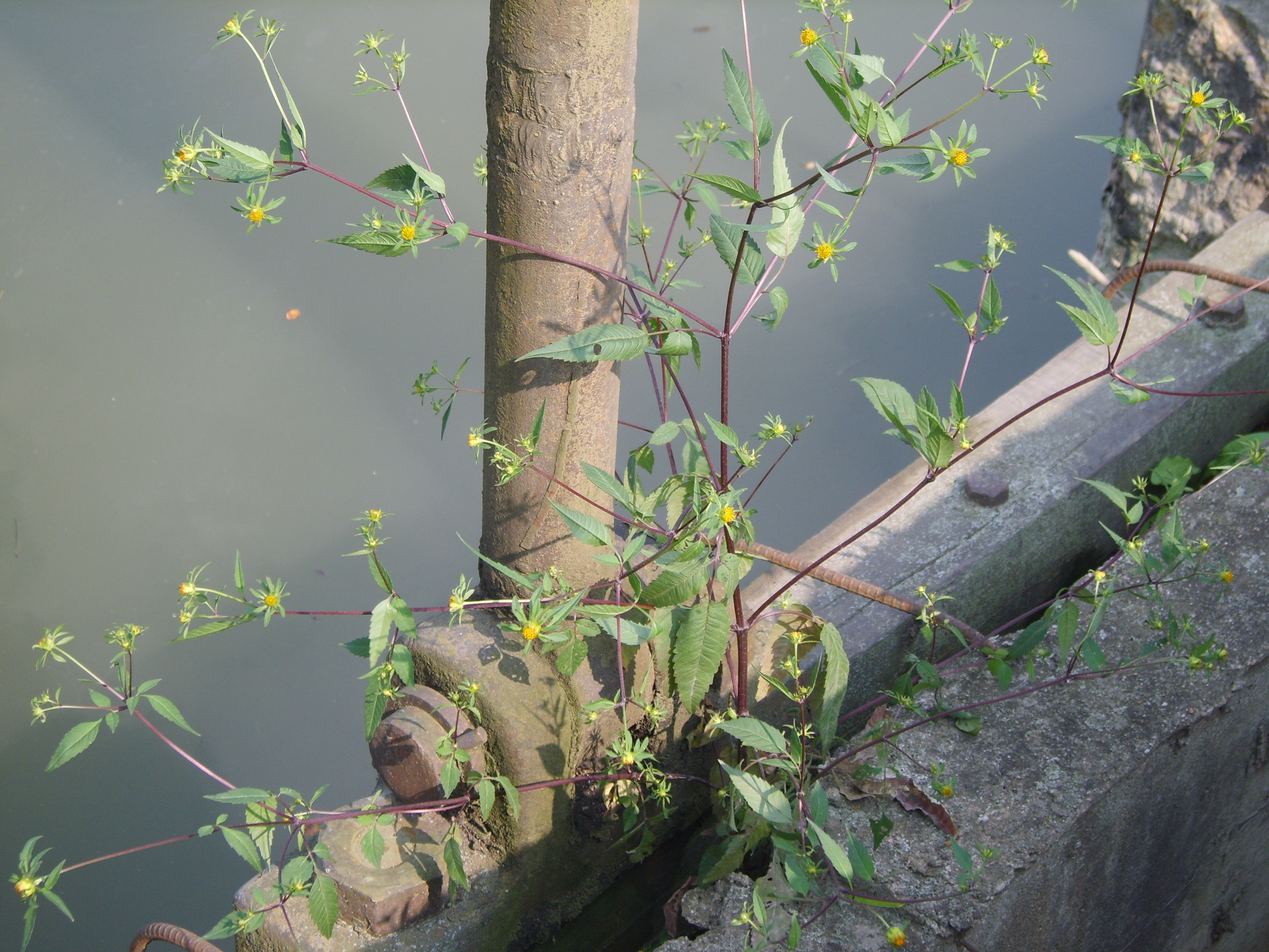 Bidens frondosa in Incheon, Korea